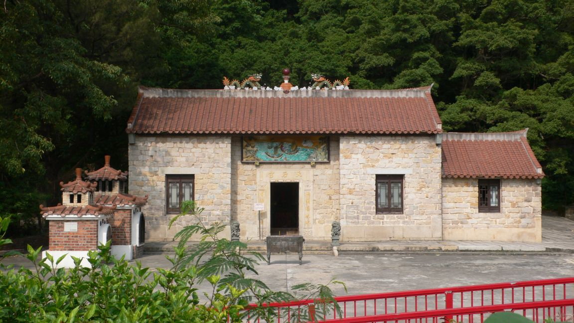 Tin Hau Temples in Cha Kwo Ling, Kwun Tong District, Hong Kong